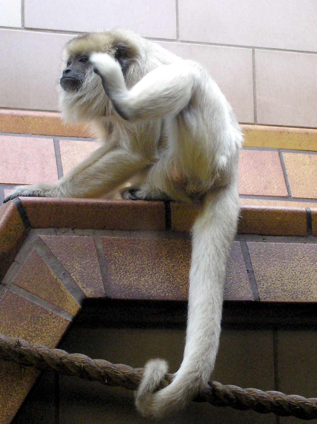 Female Black howler monkey Alouatta caraya at Bristol Zoo, Bristol, England. The males are black.